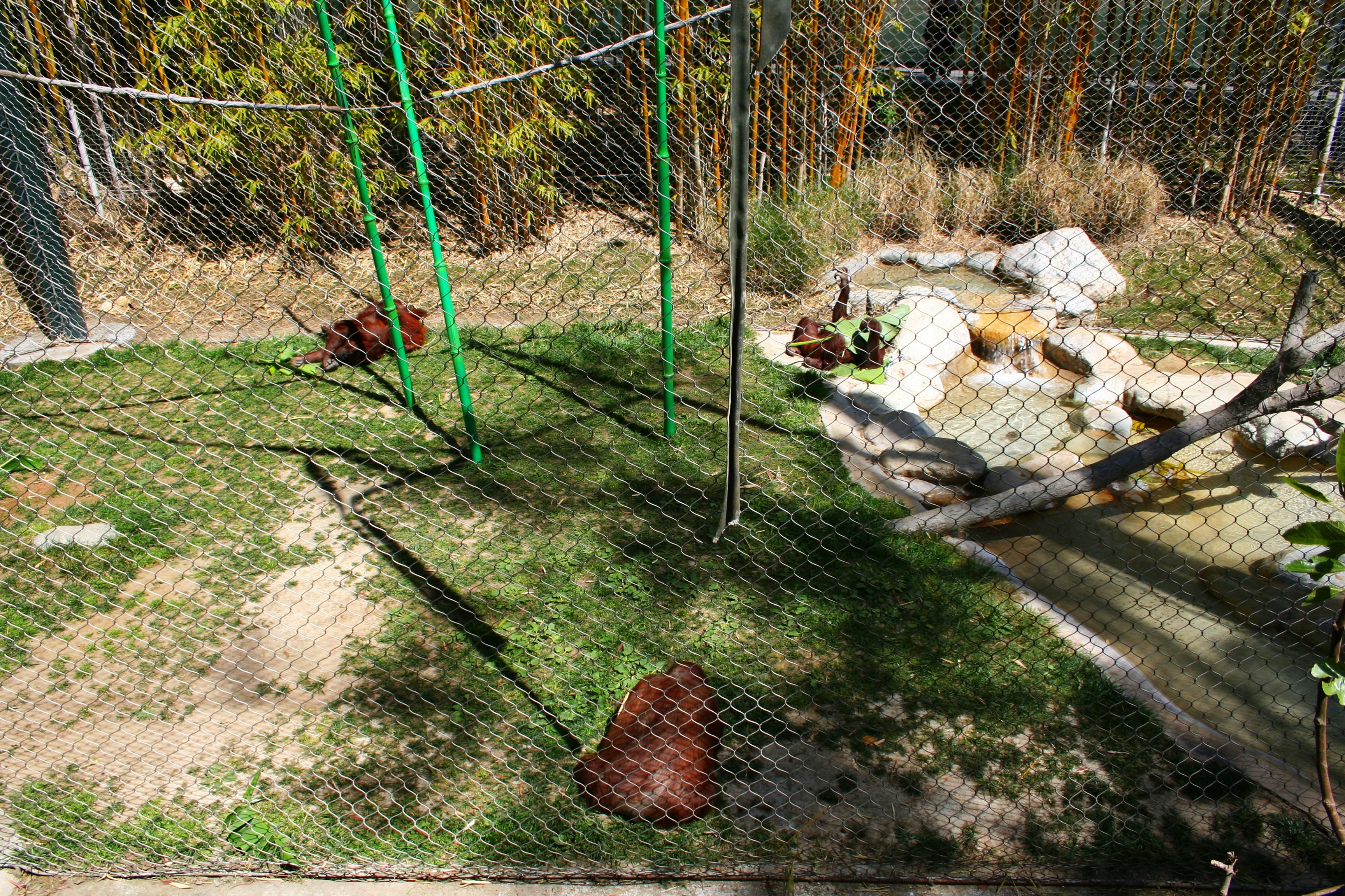 Three Bornean orangutans in the Los Angeles Zoo's Red Ape Rain Forest rest amongst bamboo sway poles and a creek